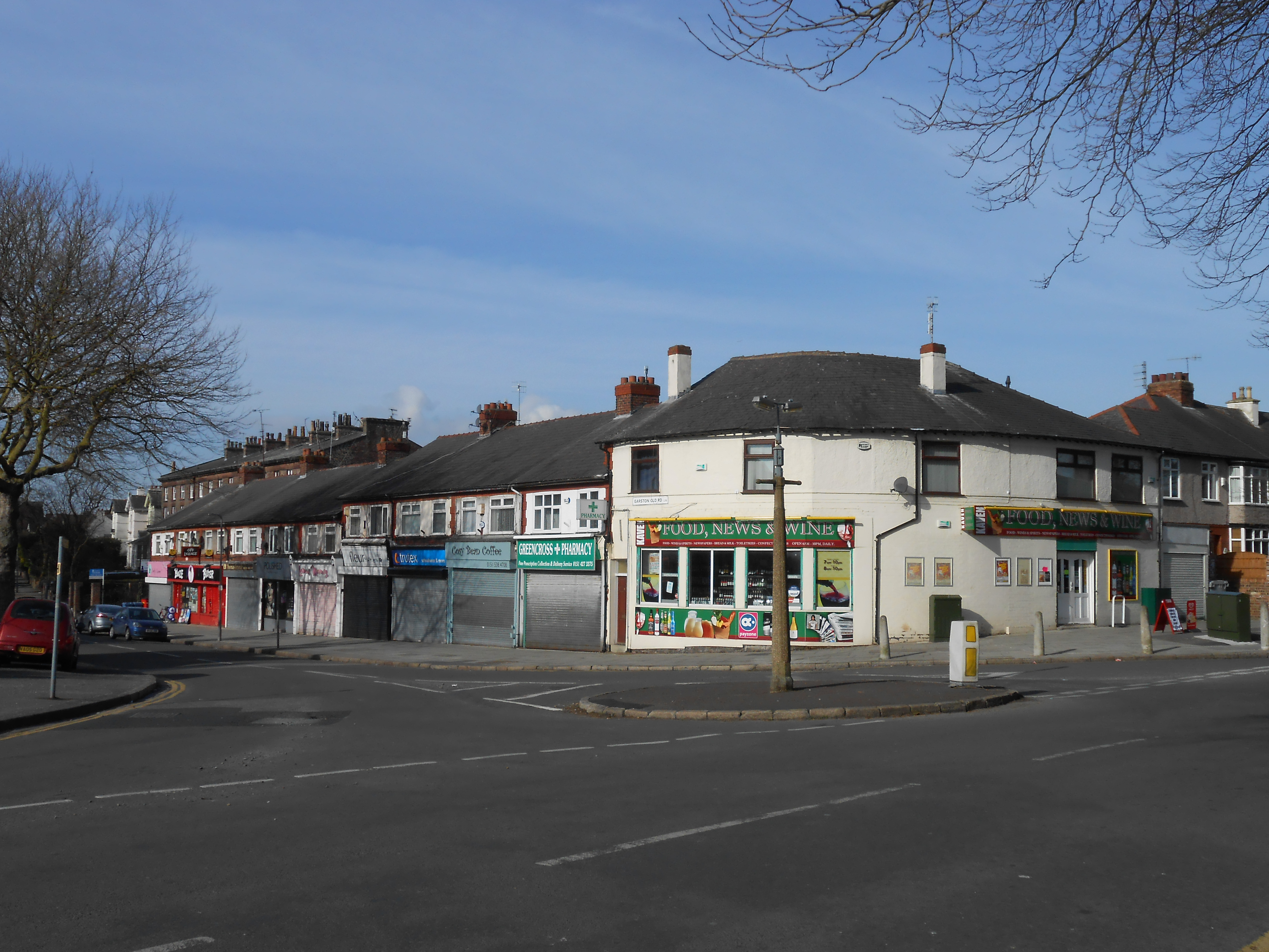 Shops on Garston Old Road, Garston, Liverpool, England.